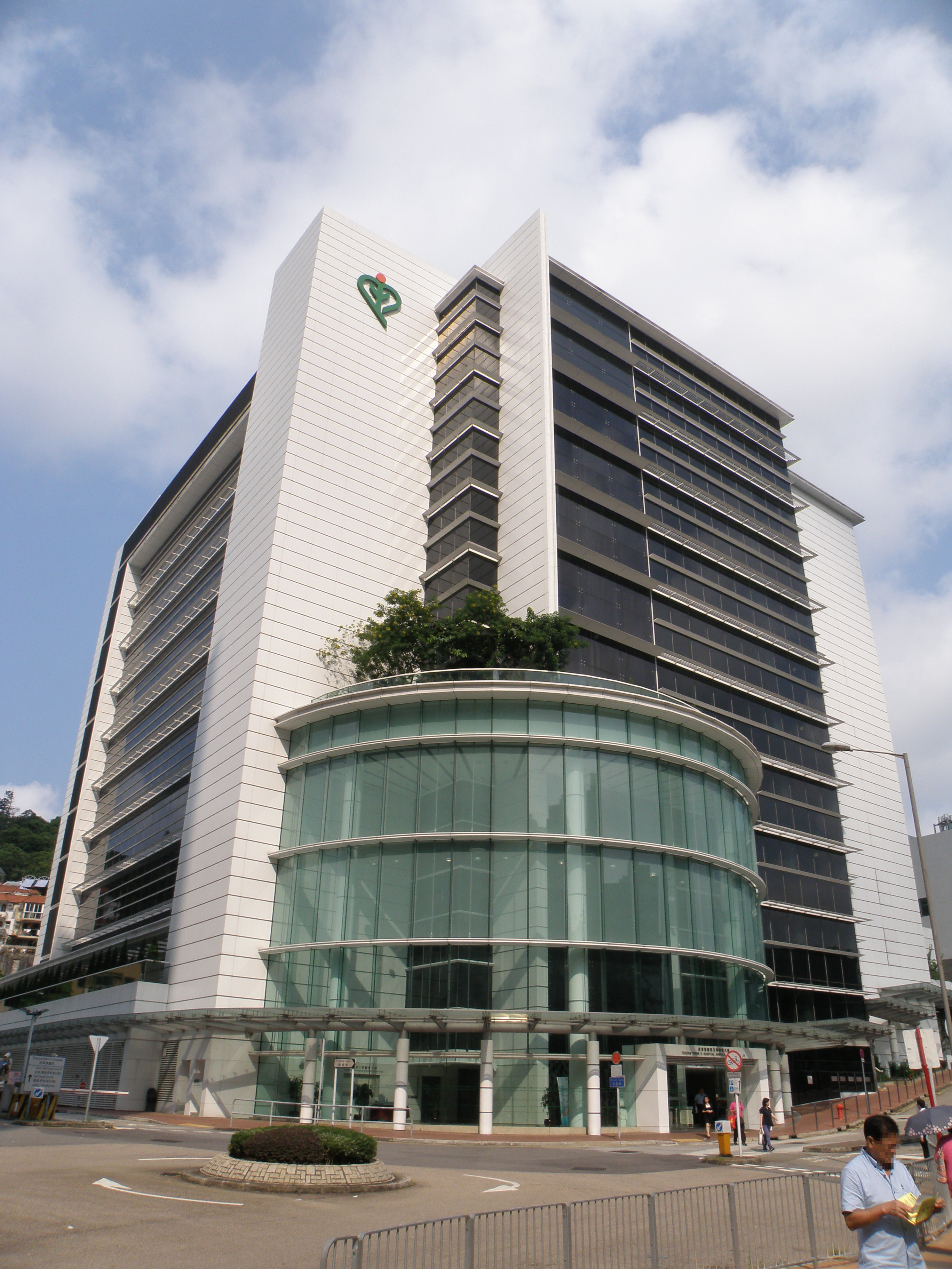 Tseung Kwan O Hospital Ambulatory Care Block in Hang Hau, Hong Kong.